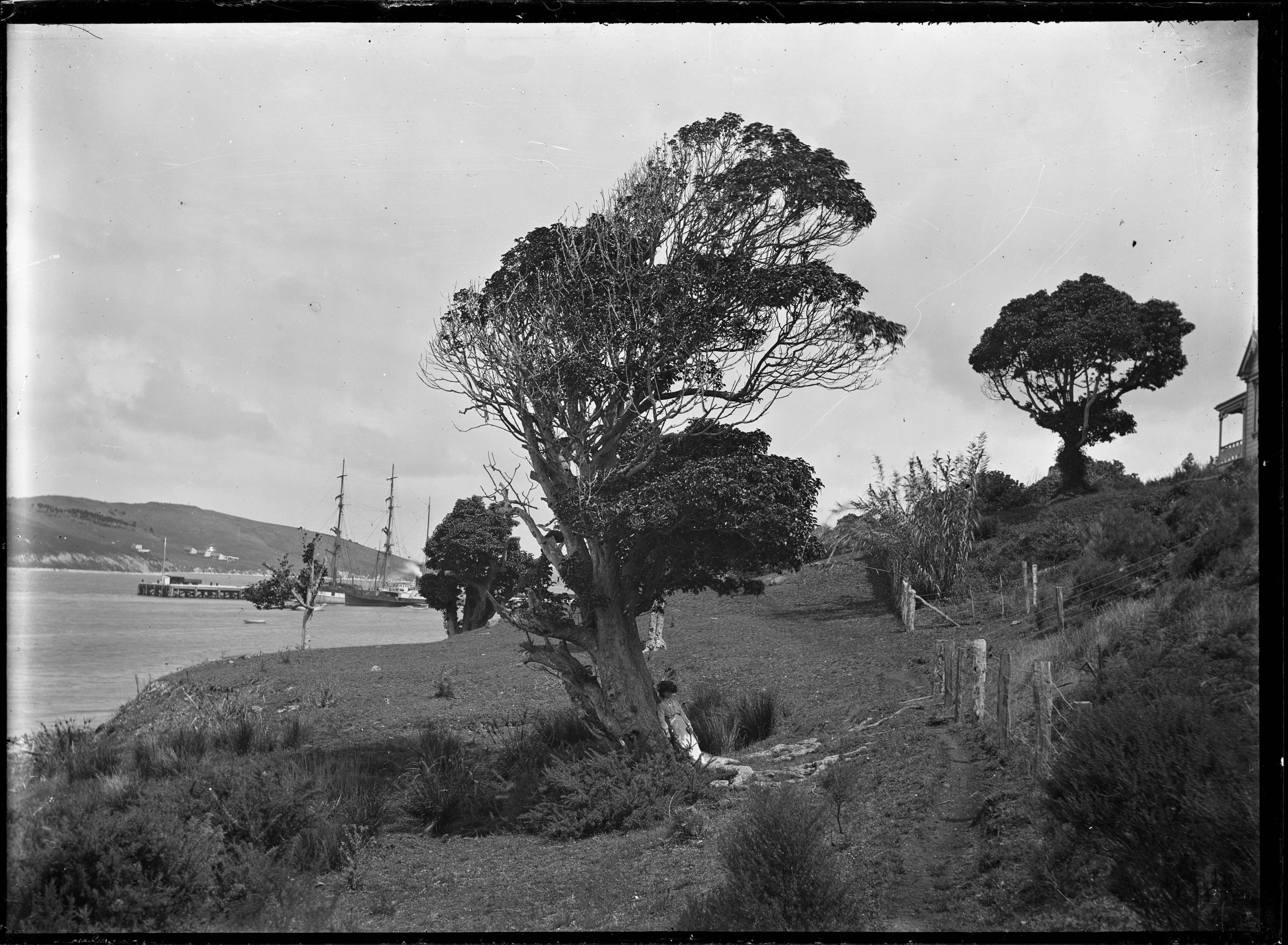 Photograph of an old wind battered (probably native) tree beyond which can be seen the harbour and Onerahi wharf with high masted ships at it. A woman (probably Laura Godber, the photographer's wife) is leaning against the trunk of the tree. Photographed by A P Godber in 1912. Dated from other images in the Godber Album.